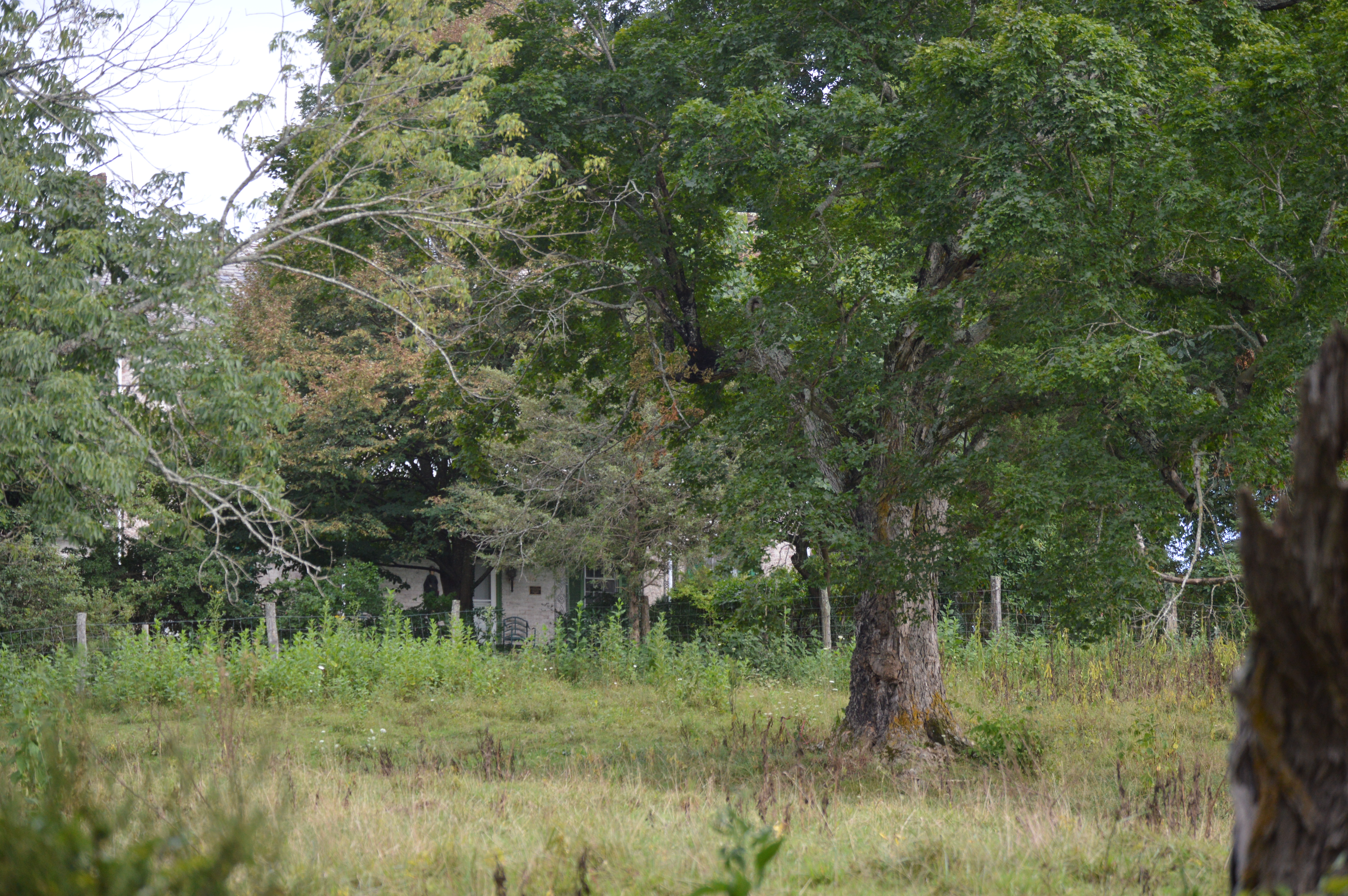 Through-the-trees view of Cedar Hill, located on Forge Road west of Buena Vista in Rockbridge County, Virginia, United States. Built in 1821, it is listed on the National Register of Historic Places.